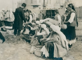 Market in Niš, World War I